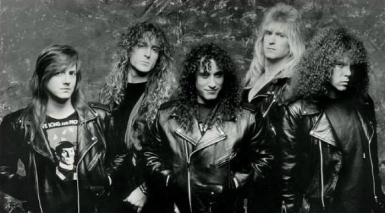 This is an early promo shot of the American metal band Vicious Rumors, Digital Dictator lineup (circa 1988)